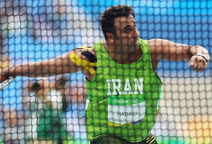 Athletics at the 2016 Summer Olympics